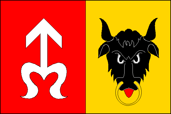 Municipal flag of Plumlov town, Prostějov District, Czech Republic.